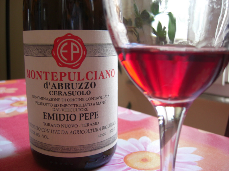 A bottle and glass of the Italian wine Montepulciano d'Abruzzo